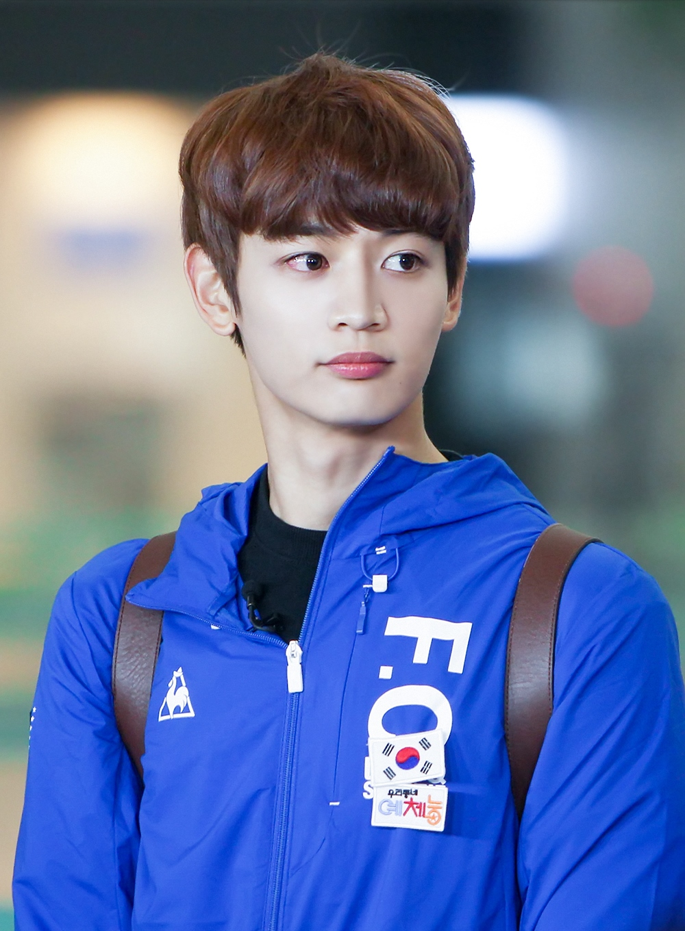 Choi Min-ho at Incheon airport on May 27, 2014.